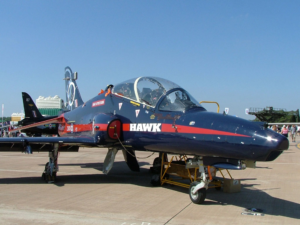 BAe Systems Hawk 102D wearing a striking colour scheme at RIAT 2005. Photo by Andrew P Clarke.